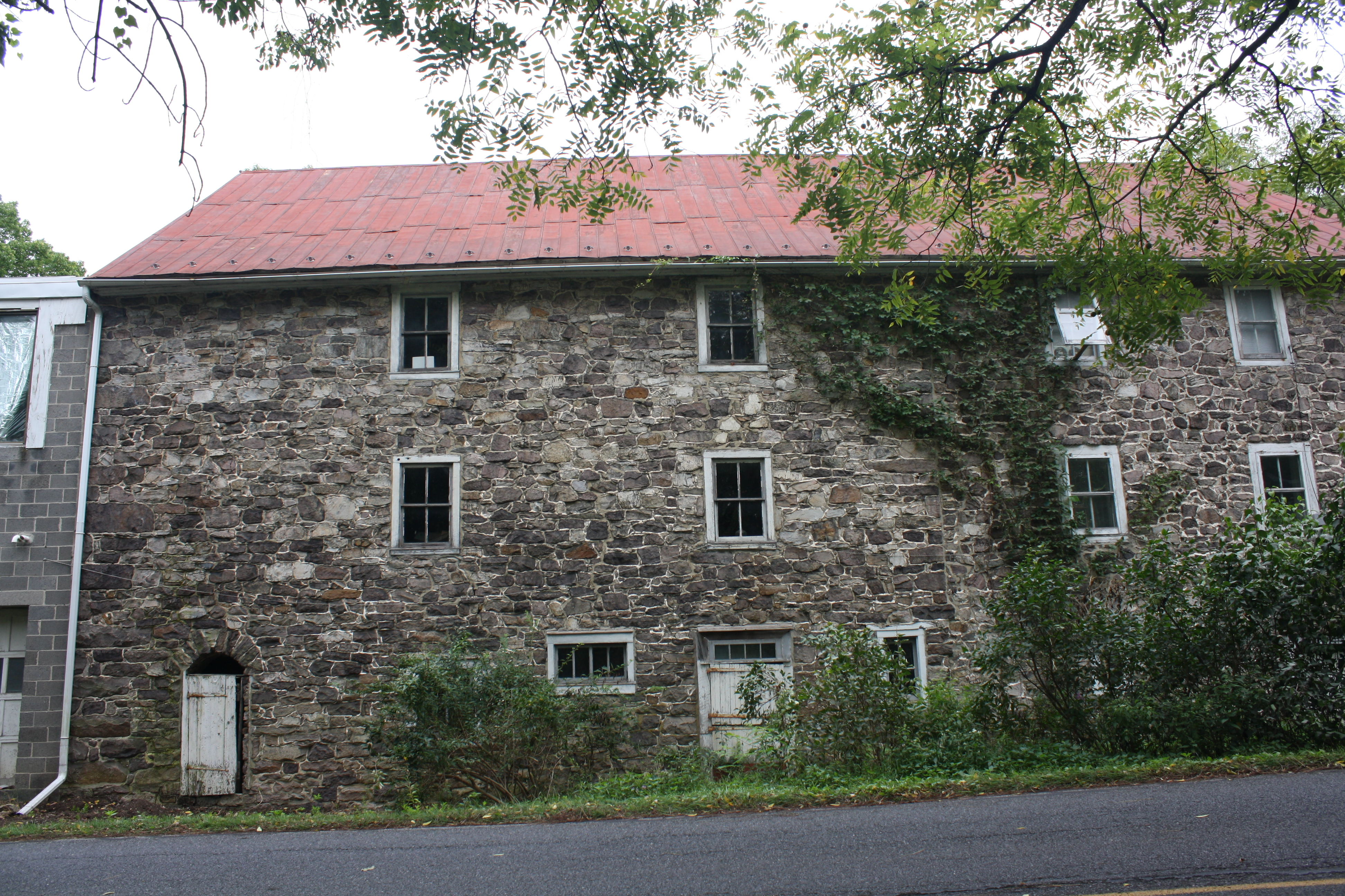 Guldin Mill is a historic grist mill and national historic district located in Maidencreek Township, Berks County, Pennsylvania. View from Guldin Rd.